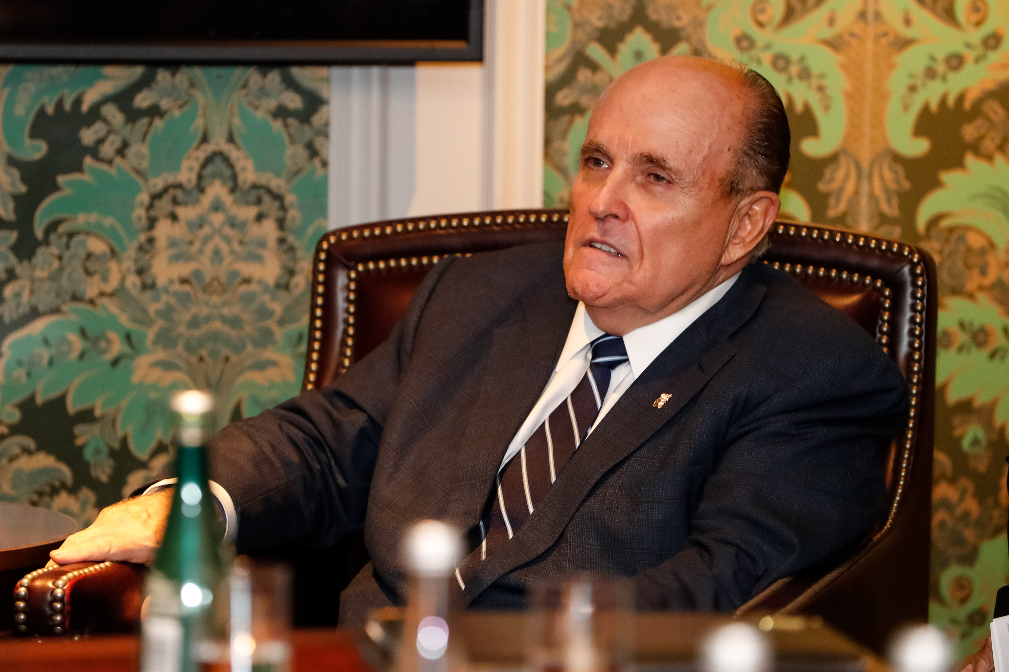 (Nova York - EUA, 24/09/2019) Presidente da República, Jair Bolsonaro, durante encontro com o senhor Rudolph Giuliani, ex-prefeito da cidade de Nova York. Foto: Alan Santos/PR